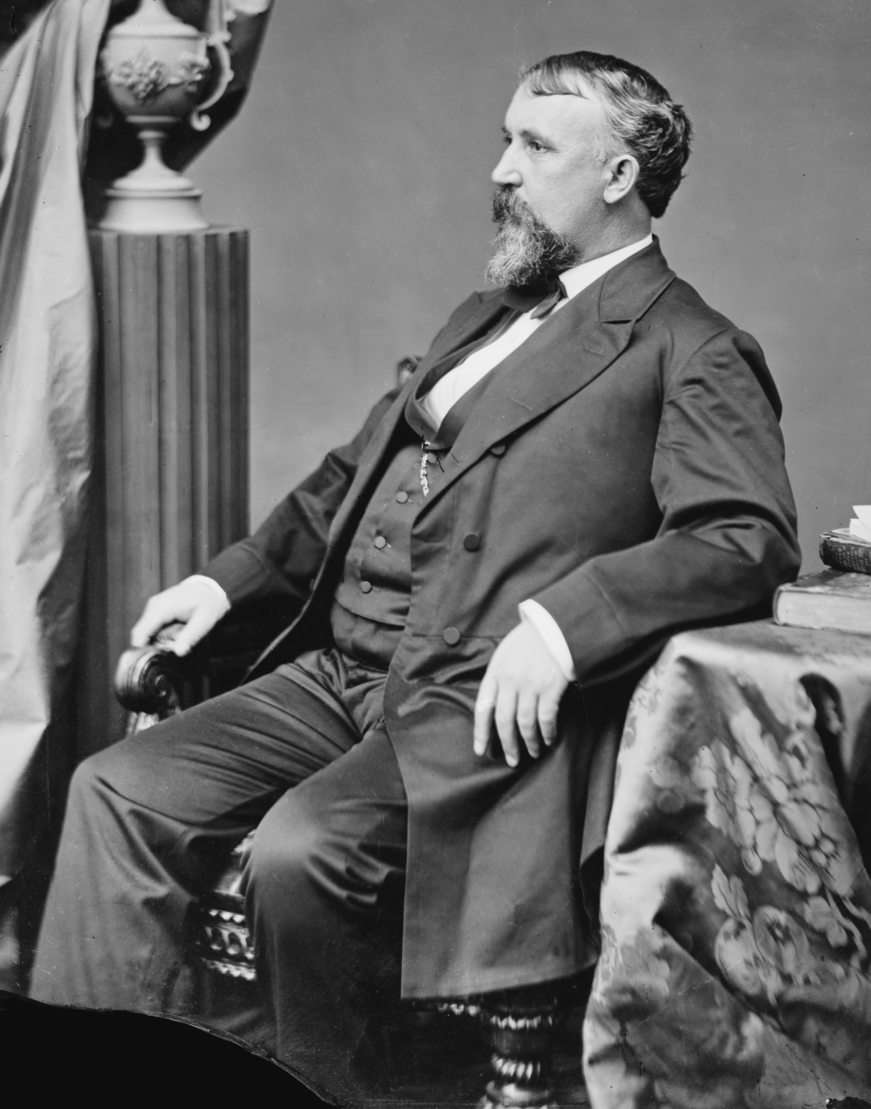 Joseph Carter Abbott. Library of Congress description: "Senator Abbott".